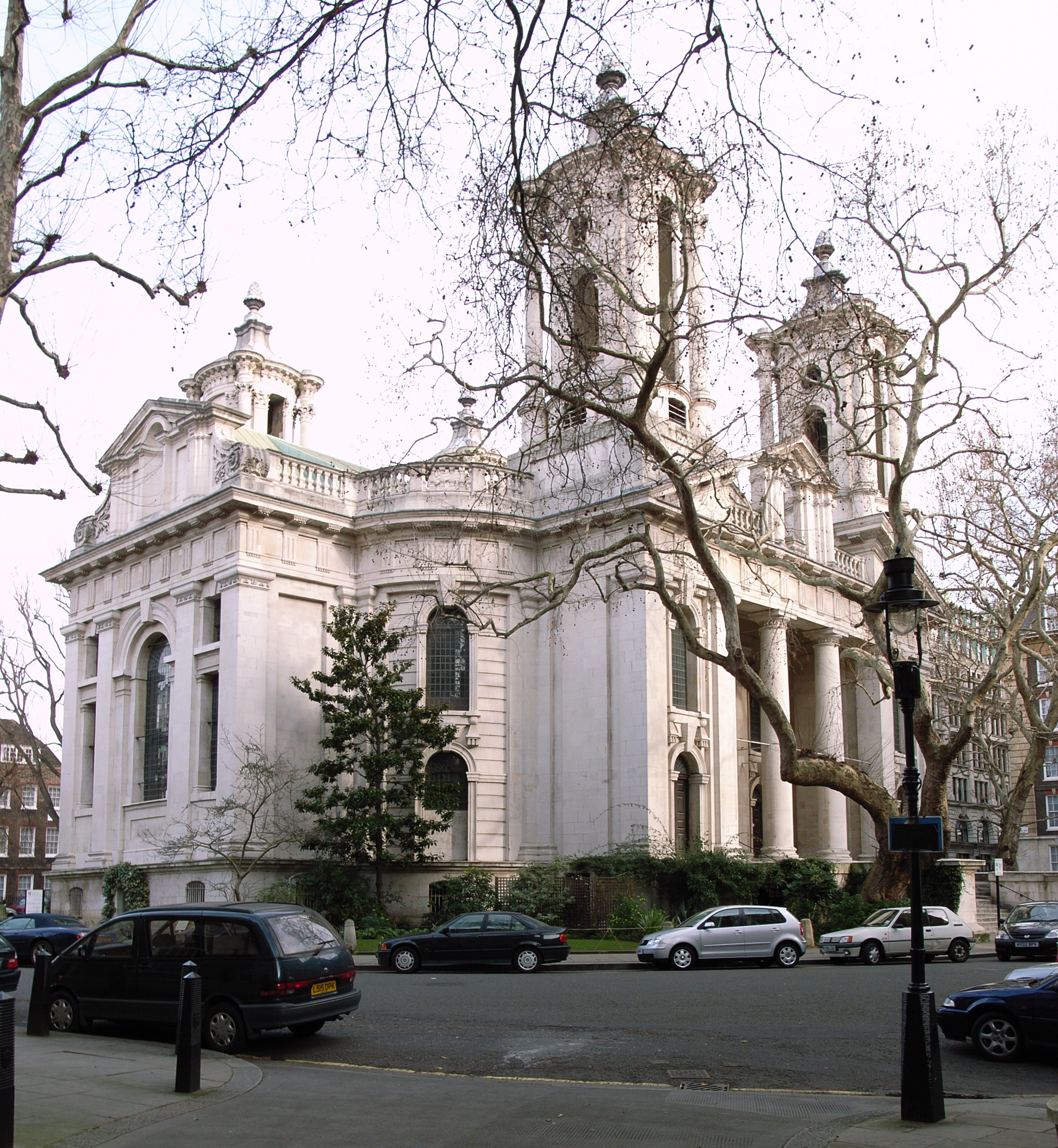 St John, Smith Square, Westminster (1714-28) by Thomas Archer